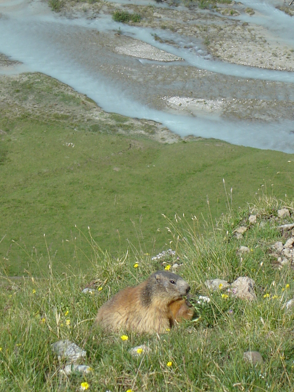 Eating marmot with Romanche river, Écrins national park, French Alps